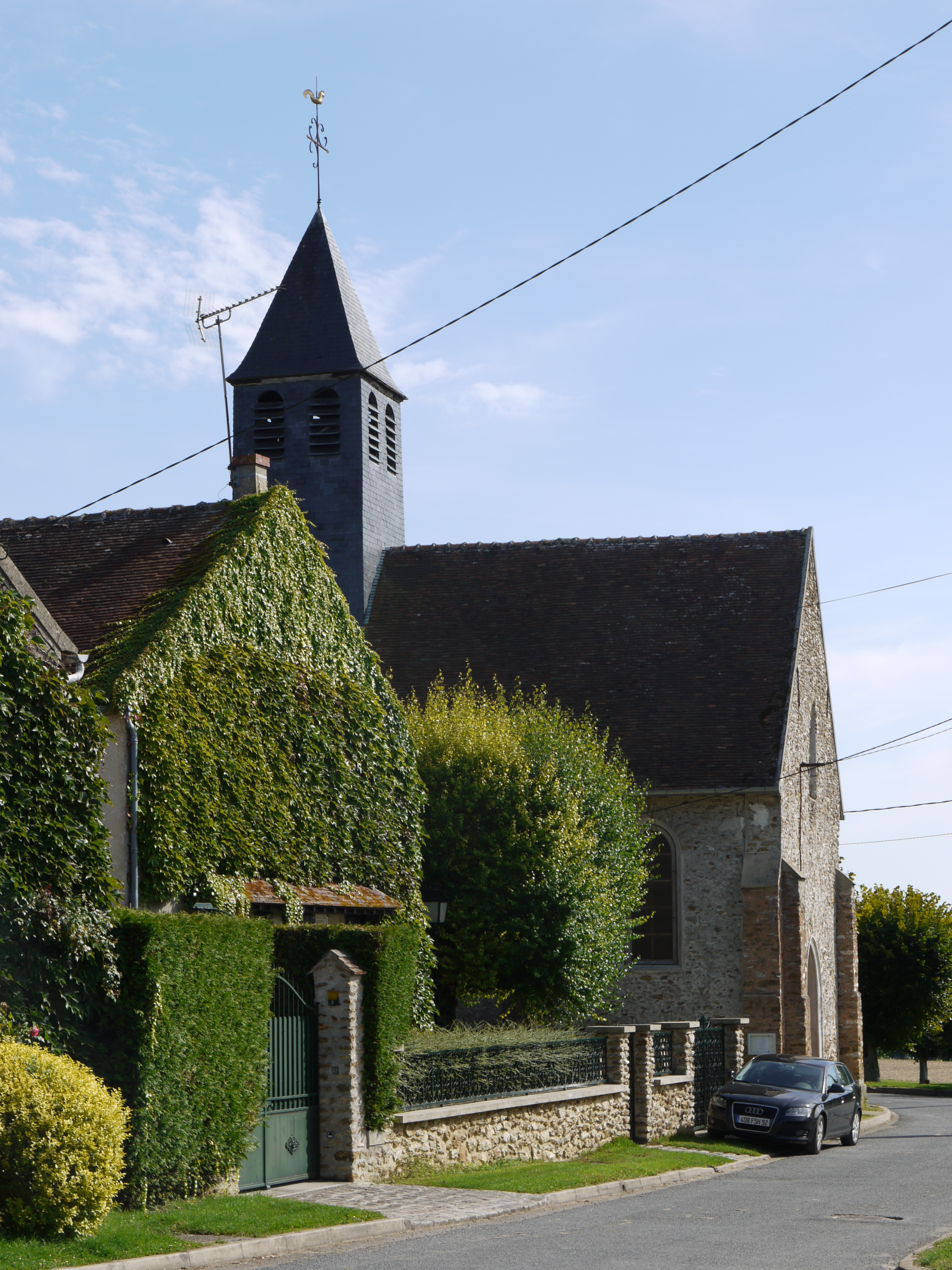 Church Notre-Dame de Vilbert in Bernay-Vilbert, Seine et Marne, Ile de France